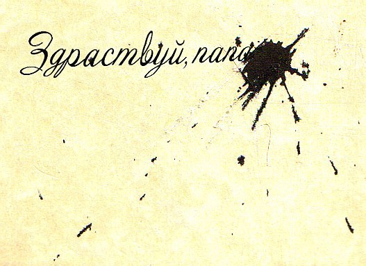 blots on a sample letter (lapsus pennae)